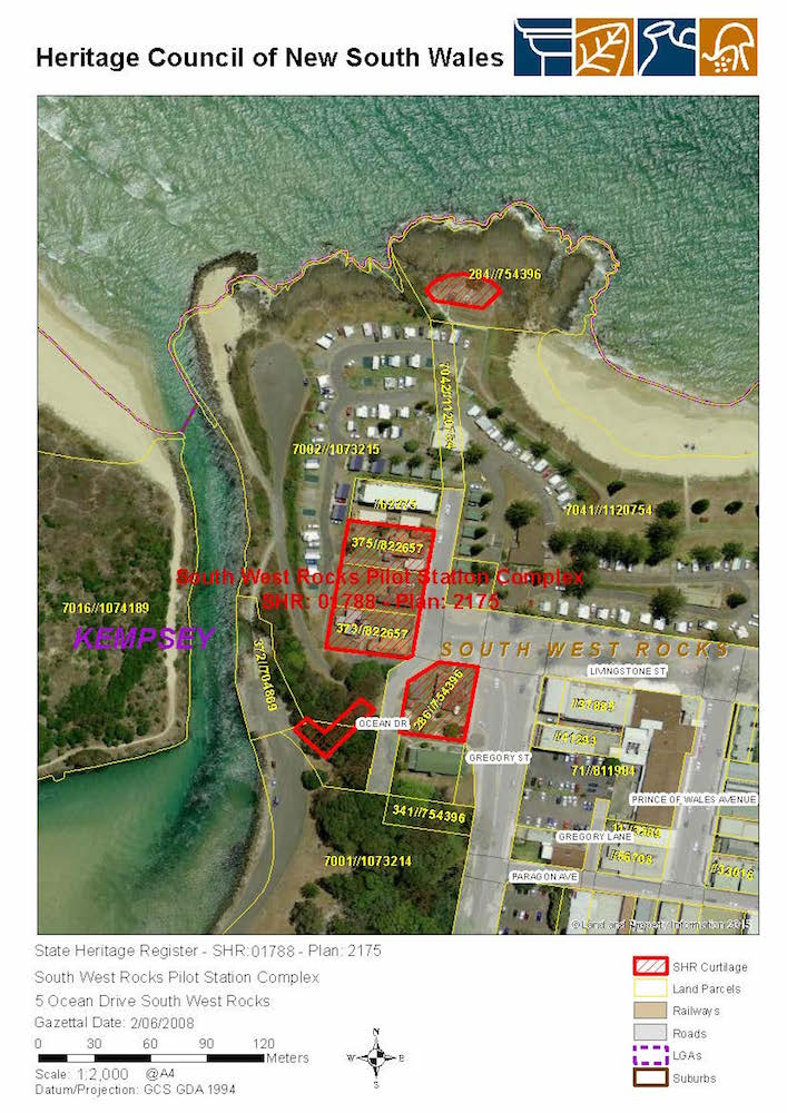 South West Rocks Pilot Station Complex: SHR Plan 2175